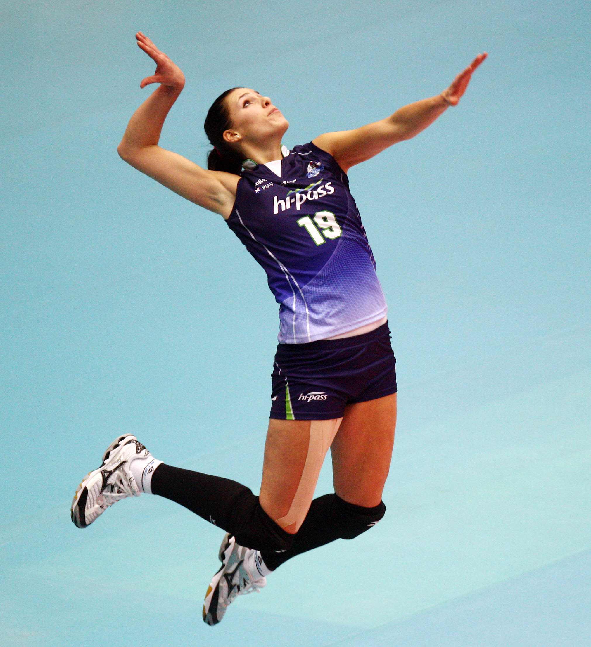 Ivana Nesovic volleyball player